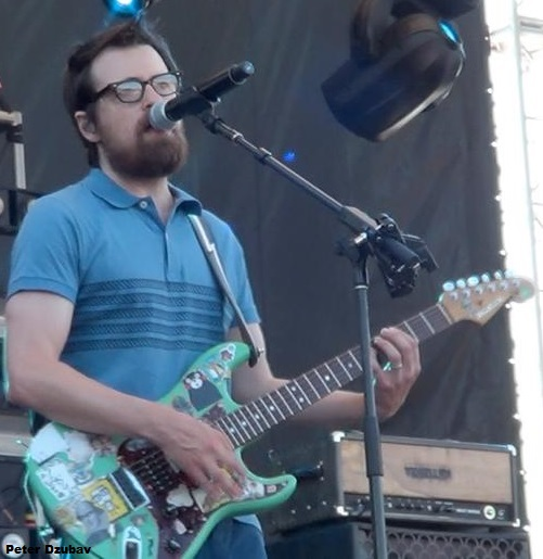 Rivers Cuomo performing with Weezer at the Gathering of the Vibes in Bridgeport, Connecticut in 2015.